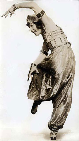 Theodore Kosloff in Fokine's 1913 production of the ballet "Scheherazade"